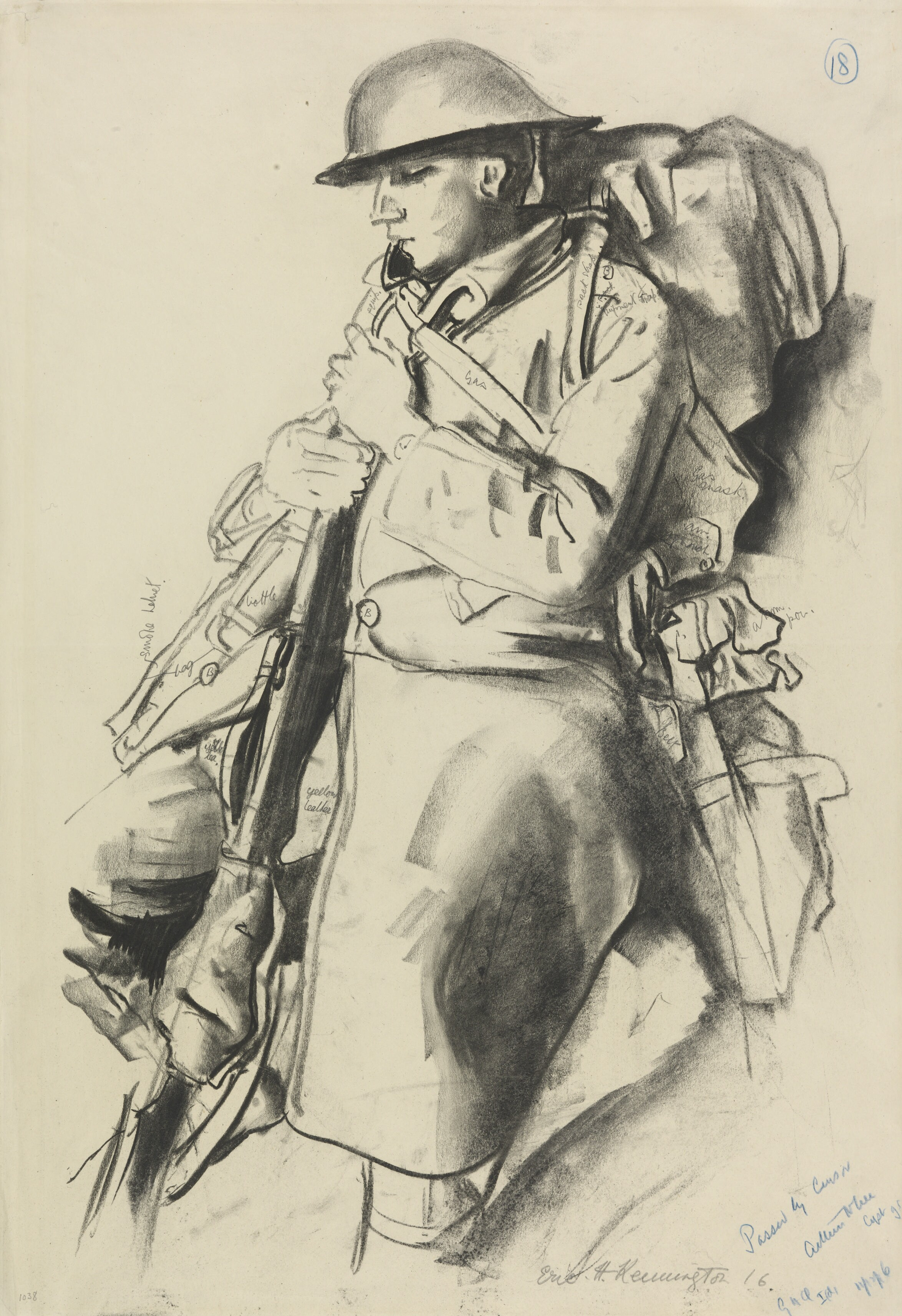 An Infantryman Resting image: a soldier in full uniform and kit leans back slightly, his right leg bent, holding the barrel of his rifle with both hands.